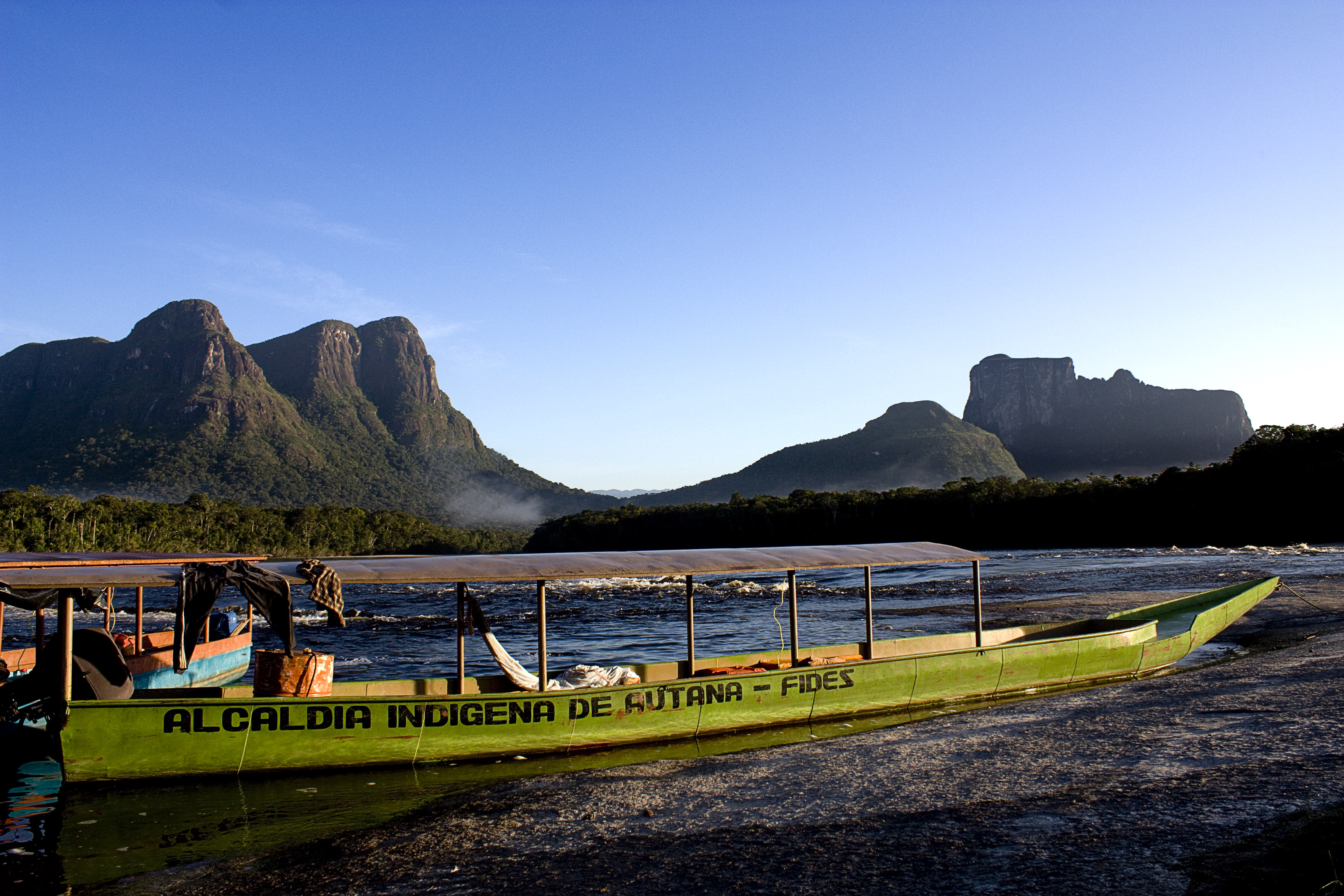 Autana